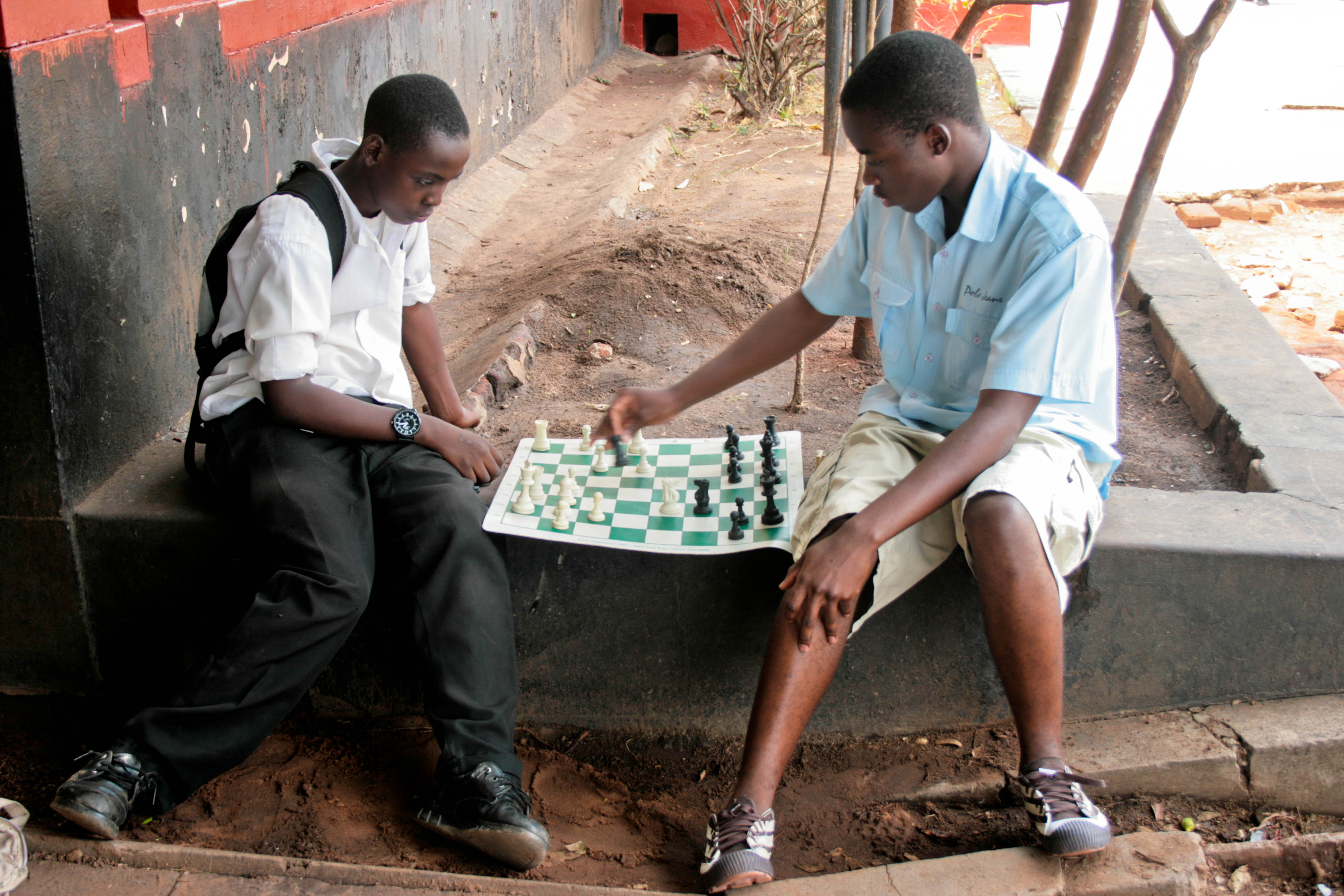 This is an image with the theme "Play" from: Zambia